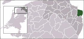 Locator map of Dutch municipalities in Groningen (LocatieReiderland.png)